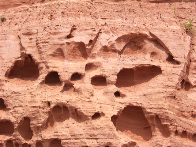 Cliff face at Budleigh Salterton. All along the cliffs at Budleigh Salterton there are signs of erosion.